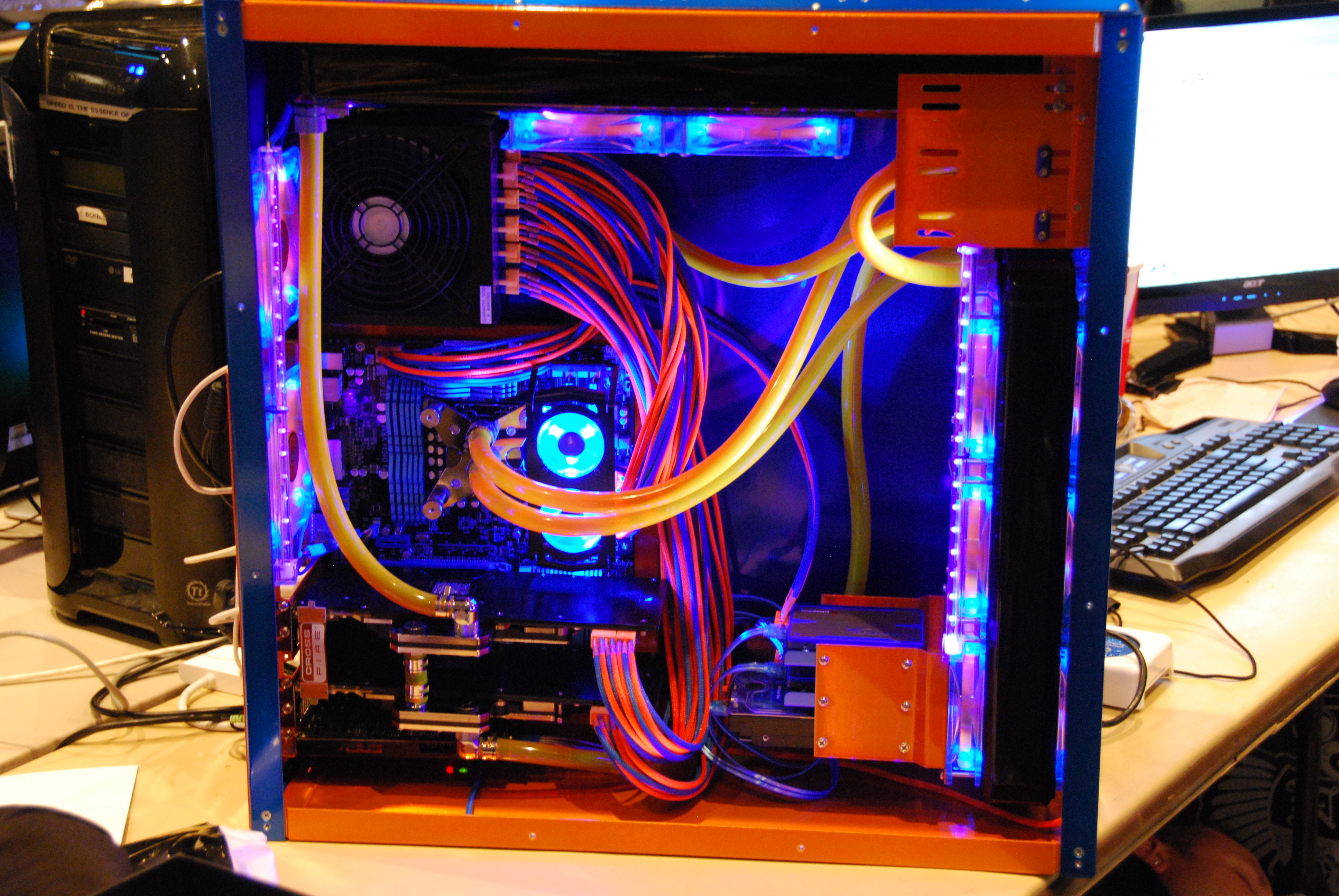 Orange liquid cooled PC